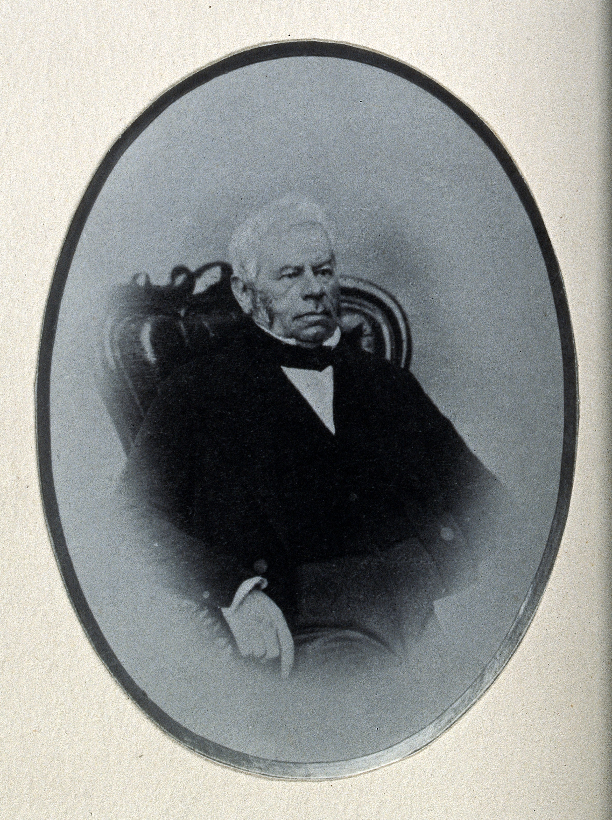 Henry Lilley Smith. Photomechanical print by J.E. Duggins. Iconographic Collections Keywords: portrait prints